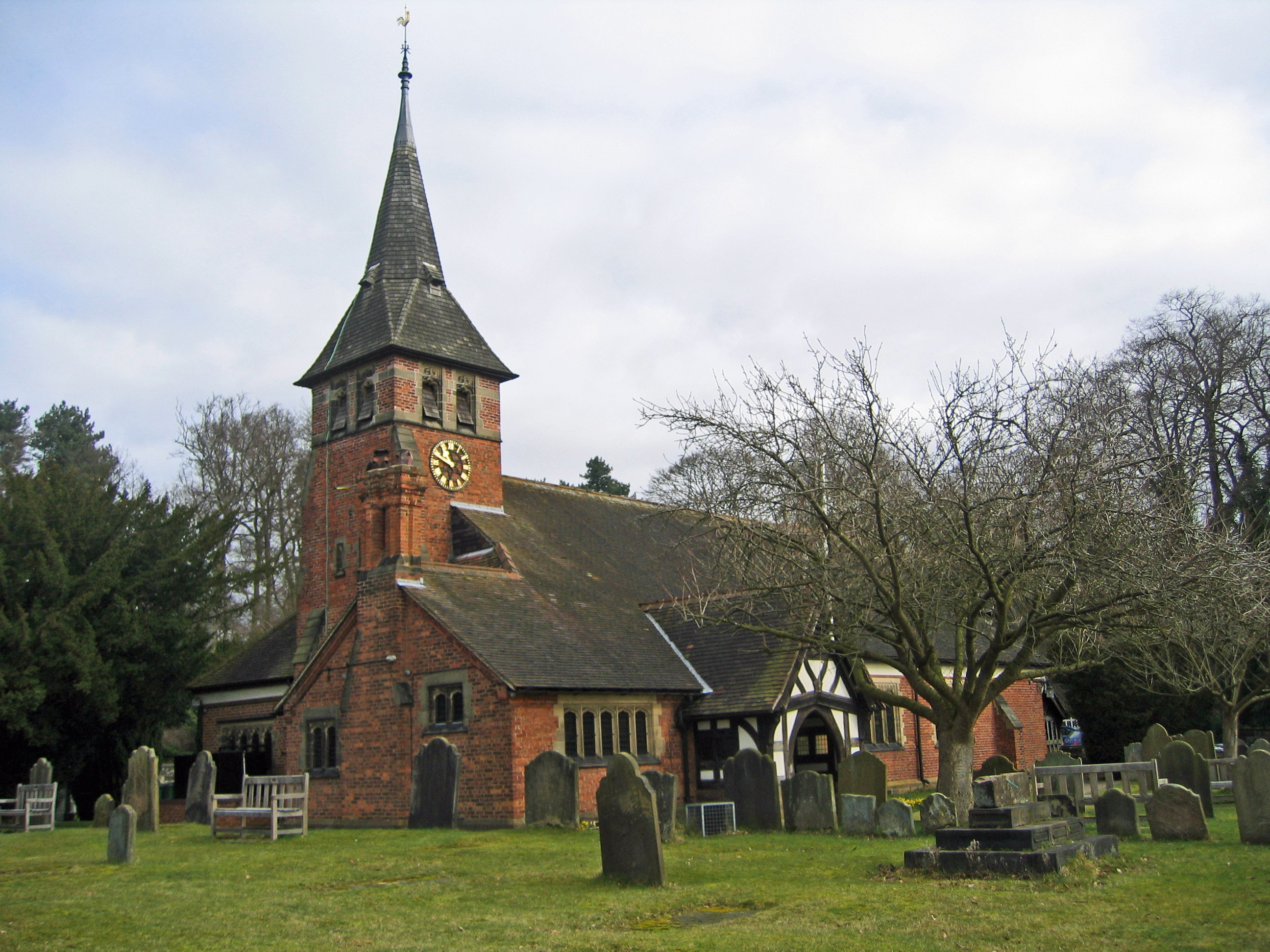 Photograph of the church from the southwest